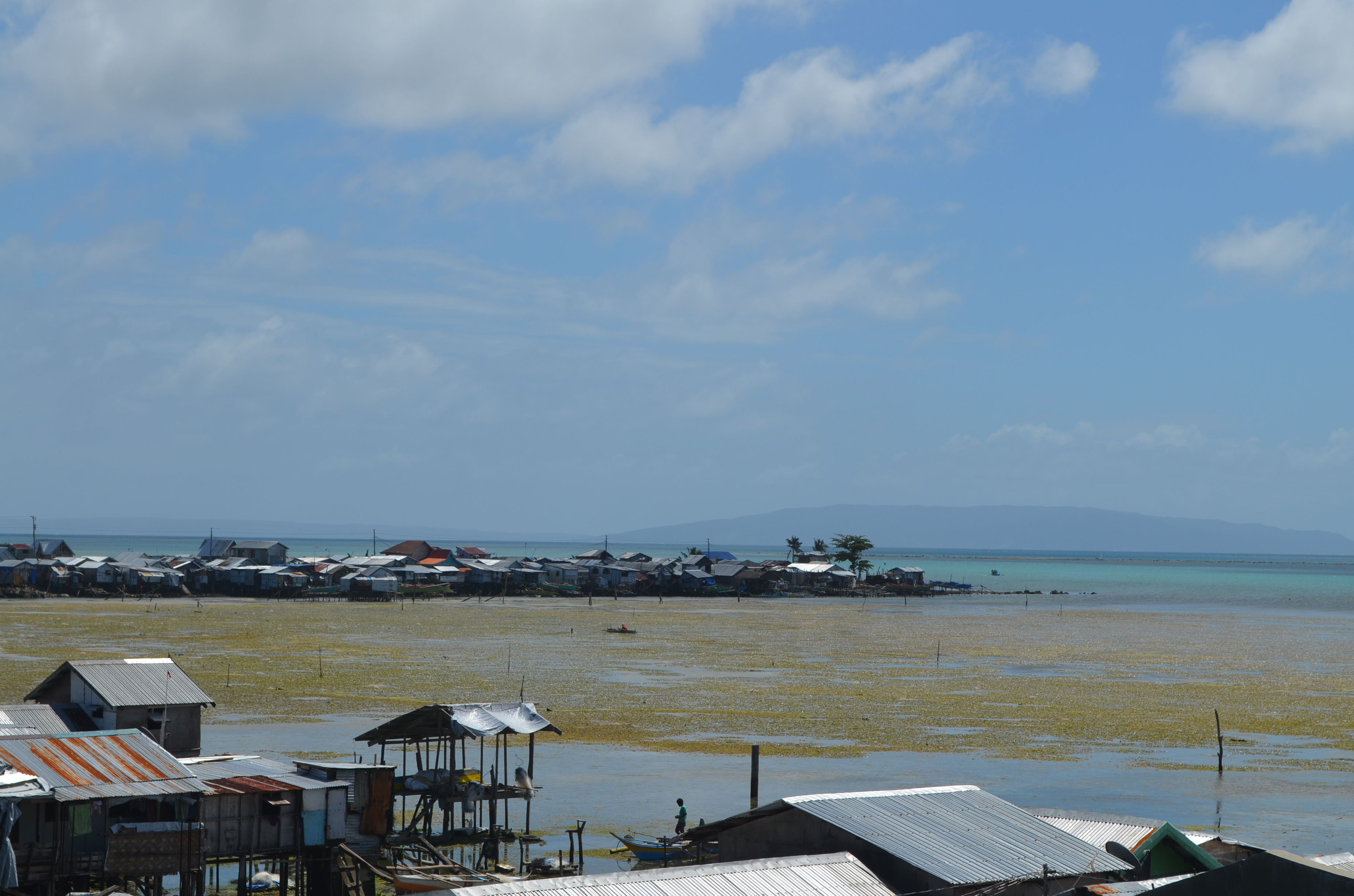 The view of the shore of Guiuan, Eastern Samar